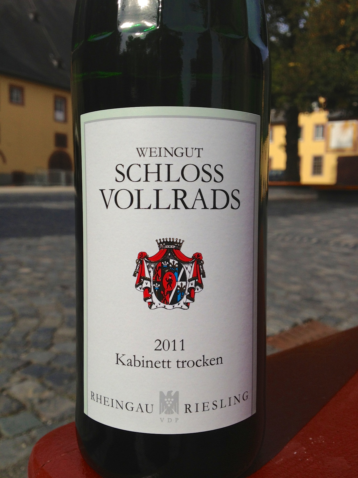 Schloss Vollrads Riesling Kabinett Dry